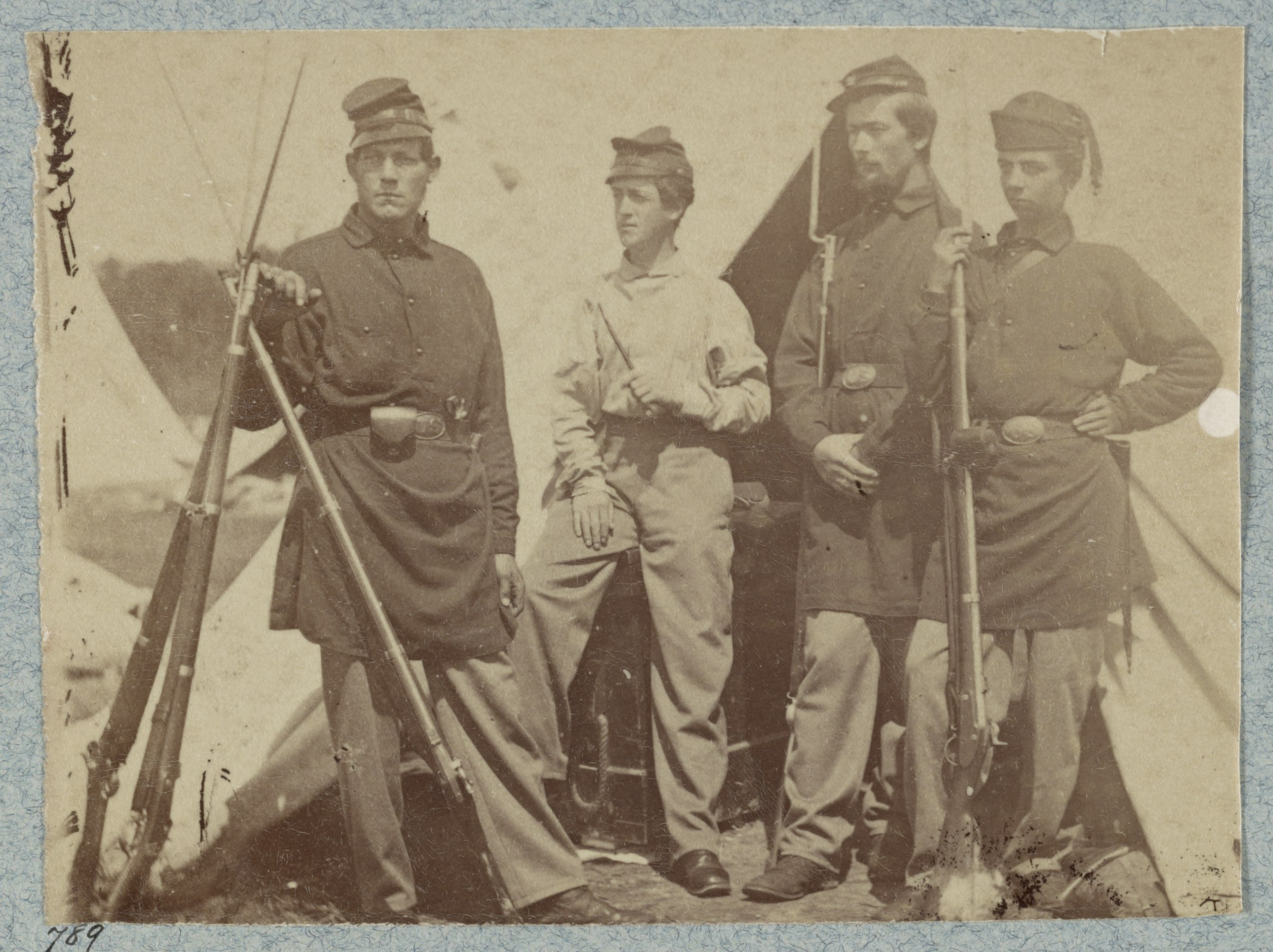 Title: 2d Rhode Island Infantry Physical description: 1 photographic print on card mount : half stereograph, albumen. Notes: Mounted with five other photographs.; No. 789.; Gift; Col. Godwin Ordway; 1948.; Title from item.